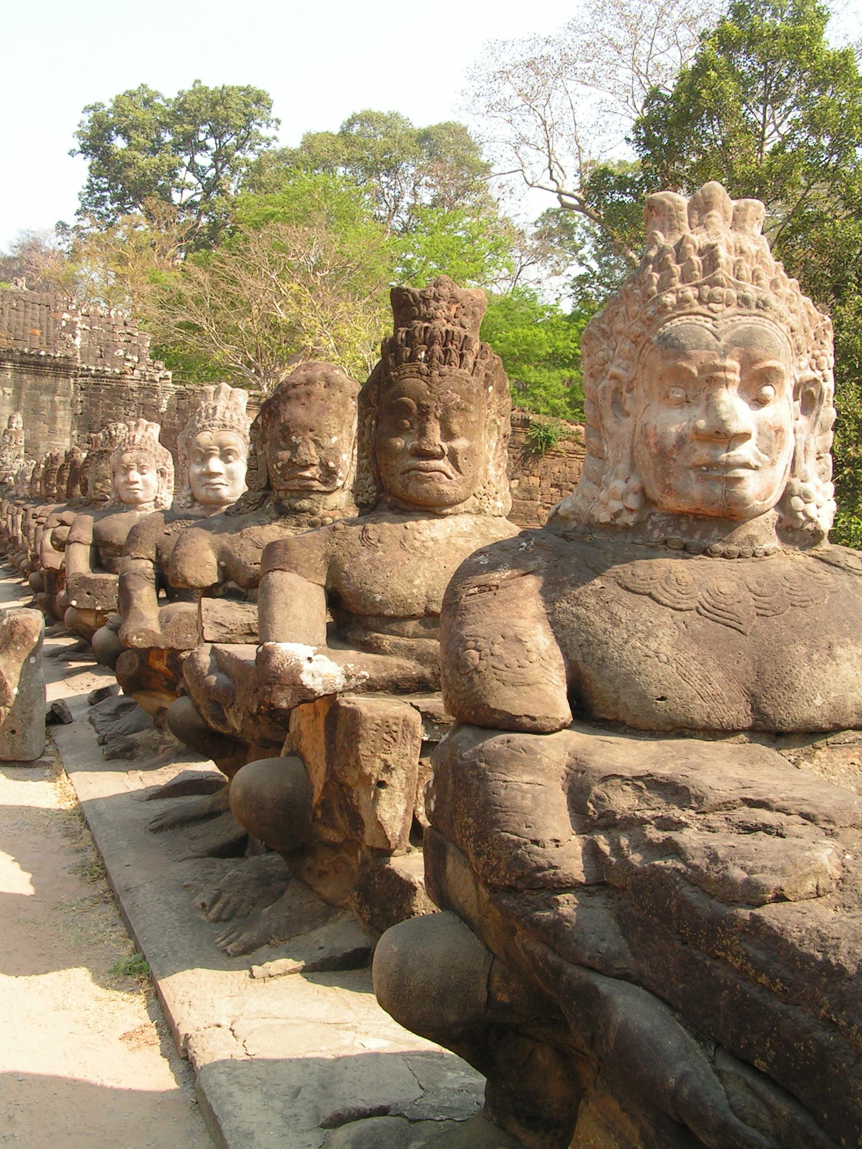 Heads of demons from the entrance to the southern gate of Angkor ThomStatues over a bridge